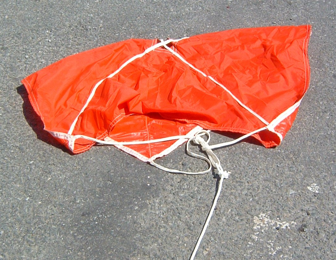 Sea anchor